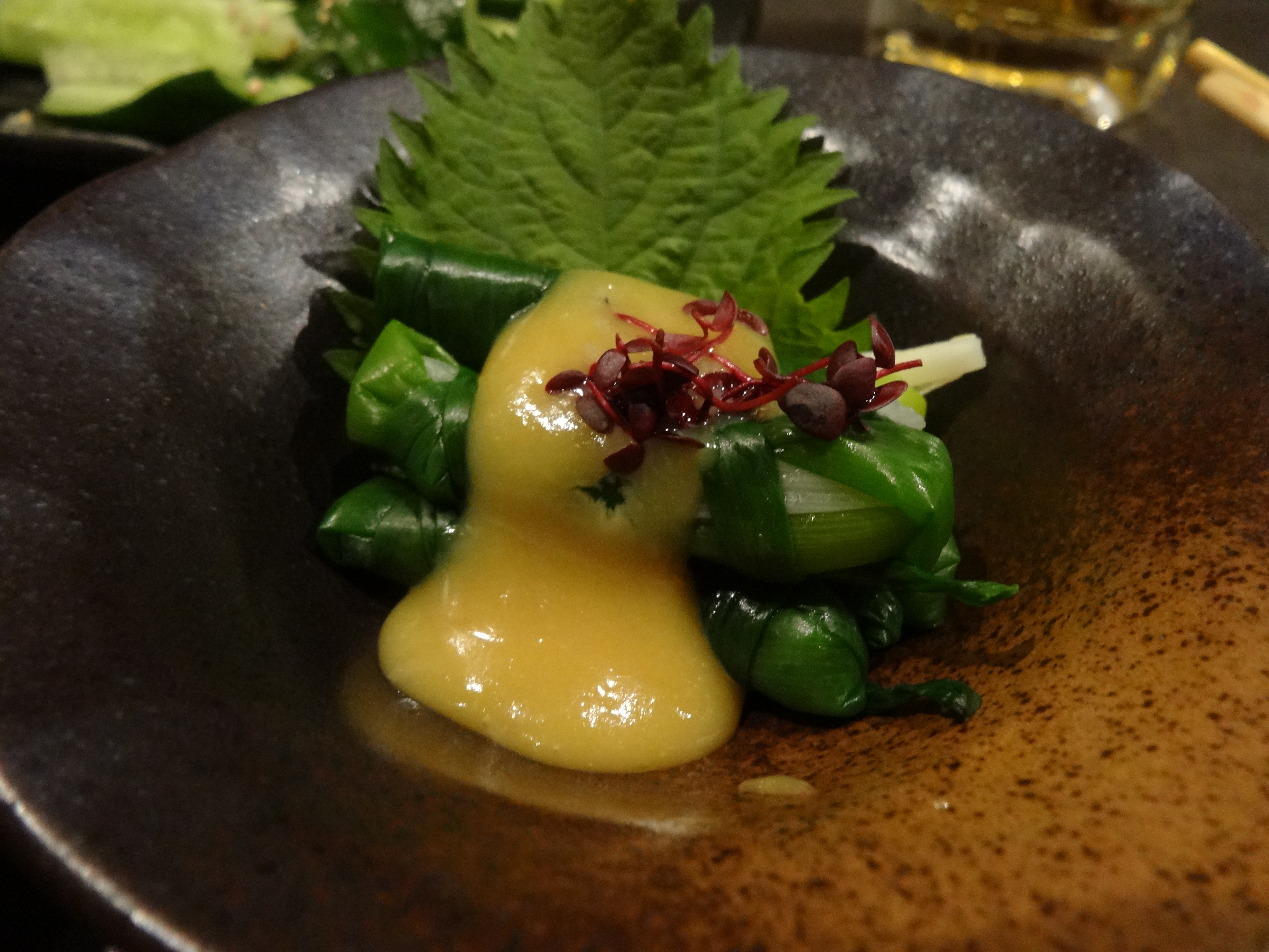 2013-11-13 TOKYO business trip. Dinner at 九州 熱中屋 市ヶ谷 LIVE.